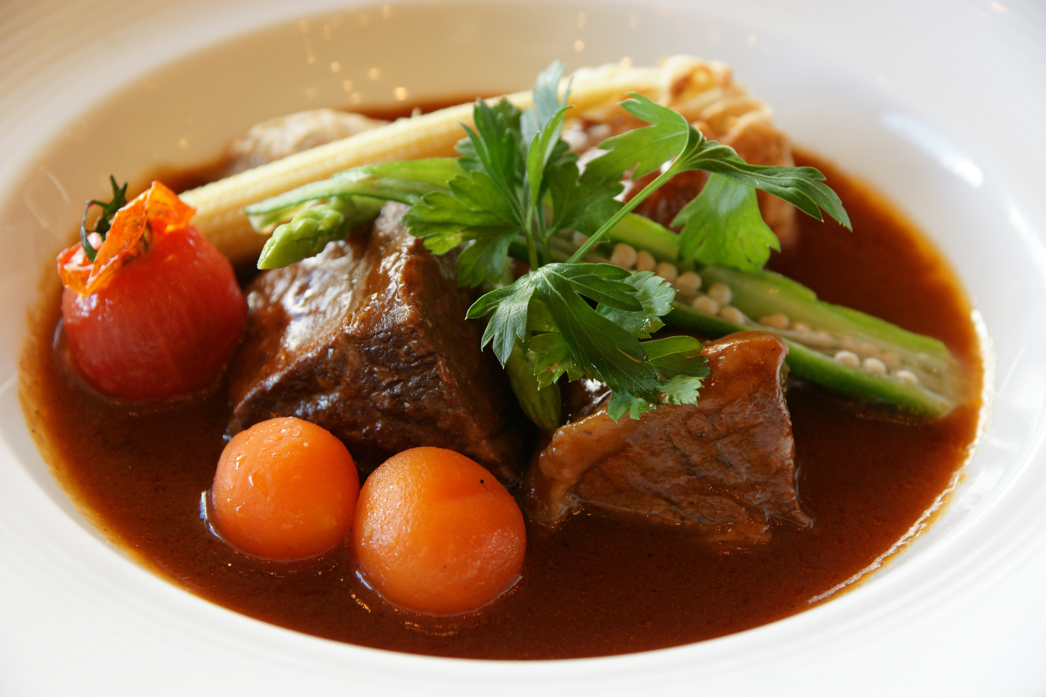 Arima Grand Hotel of Arima onsen in Kobe, Hyogo prefecture, Japan